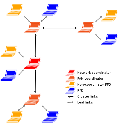 Cluster trees as defined by the IEEE 802.15.4 standard. A global network coordinator is the root of a tree network whose nodes can be local coordinators of their personal operating spaces. Each one of these nodes may be associated to slave devices directly connected to them.